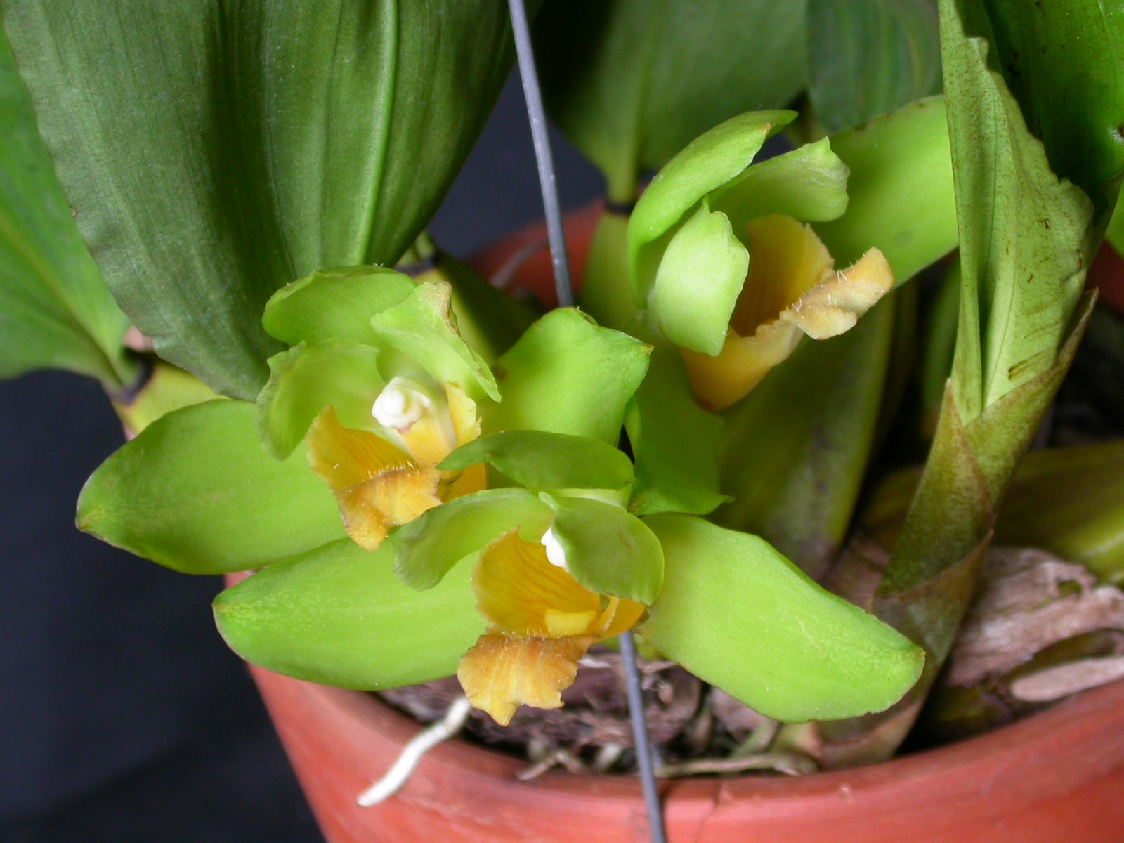 Bifrenaria inodora